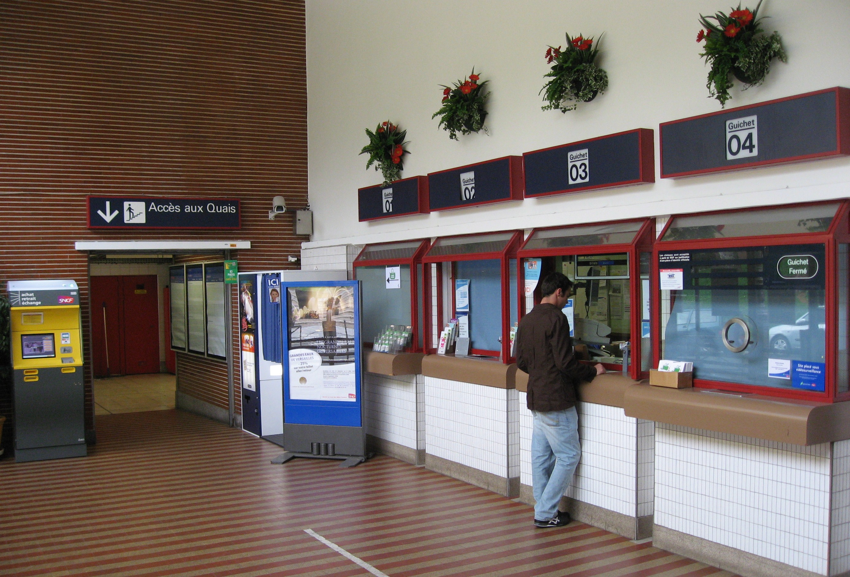 Inside of the Gare de Puteaux.